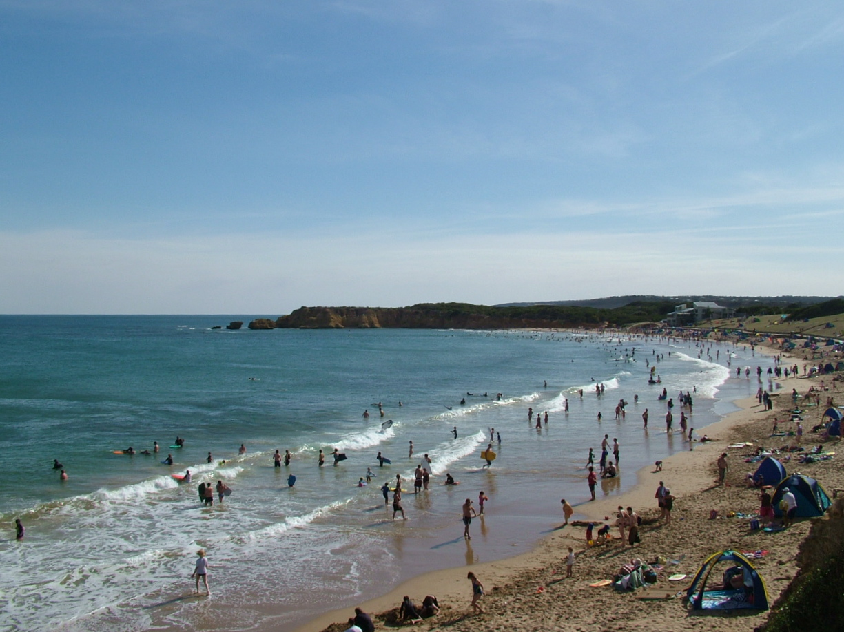 Taken at 5:34PM, 10/01/2007 from the lookout near Point Danger.